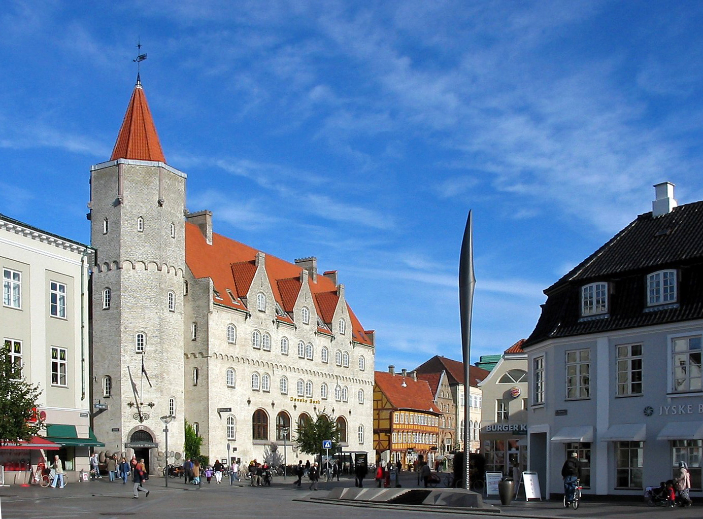 Nytorv Square in Aalborg, Denmark, 2004